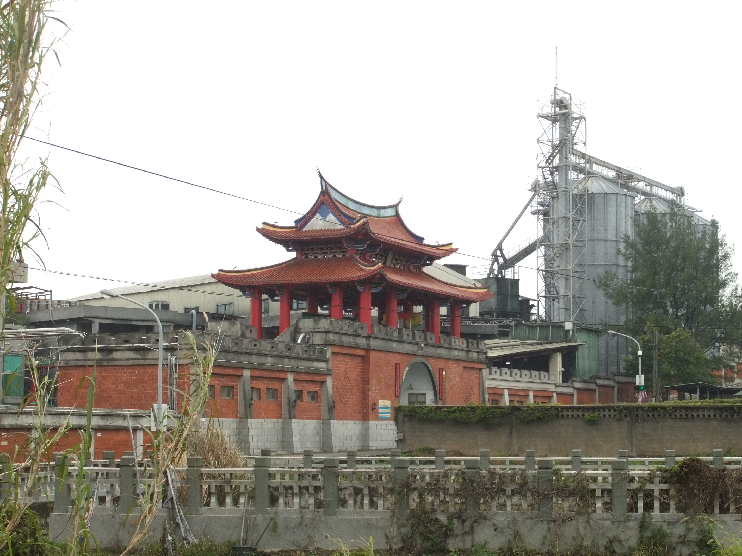 Kinmen Distillery. Outside of the main door, one can see the statue of the founder, Ye Huacheng.